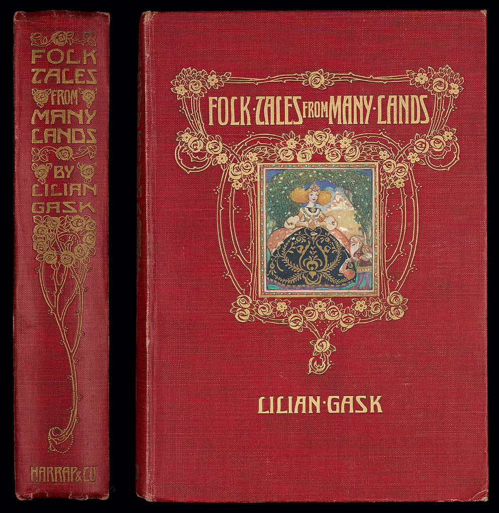 File name: ILS-1228278Binder label: G 398.2 GAS 1910Title: Folk tales from many landsDate issued: 1910Genre: Book coversNotes: (Author) Lilian GaskCollection: Victorian publishers' bookbindingsLocation: National Library NZ on The Commons collectionsRights: No known copyright restrictions.